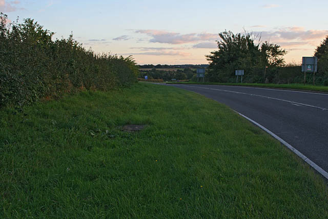 A447, Ibstock Road, Nailstone Looking towards Barlestone and Market Bosworth.